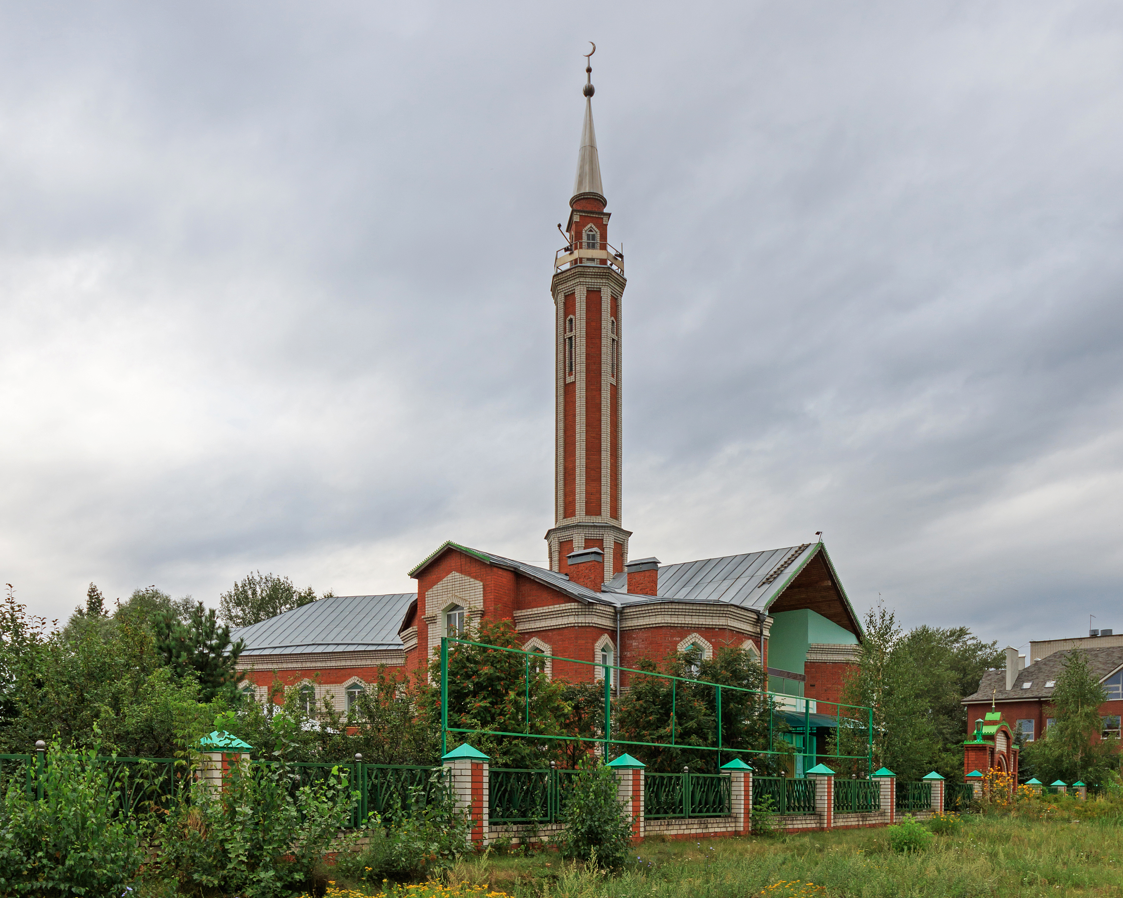 Mosque in Volzhsk, Mari El, Russia